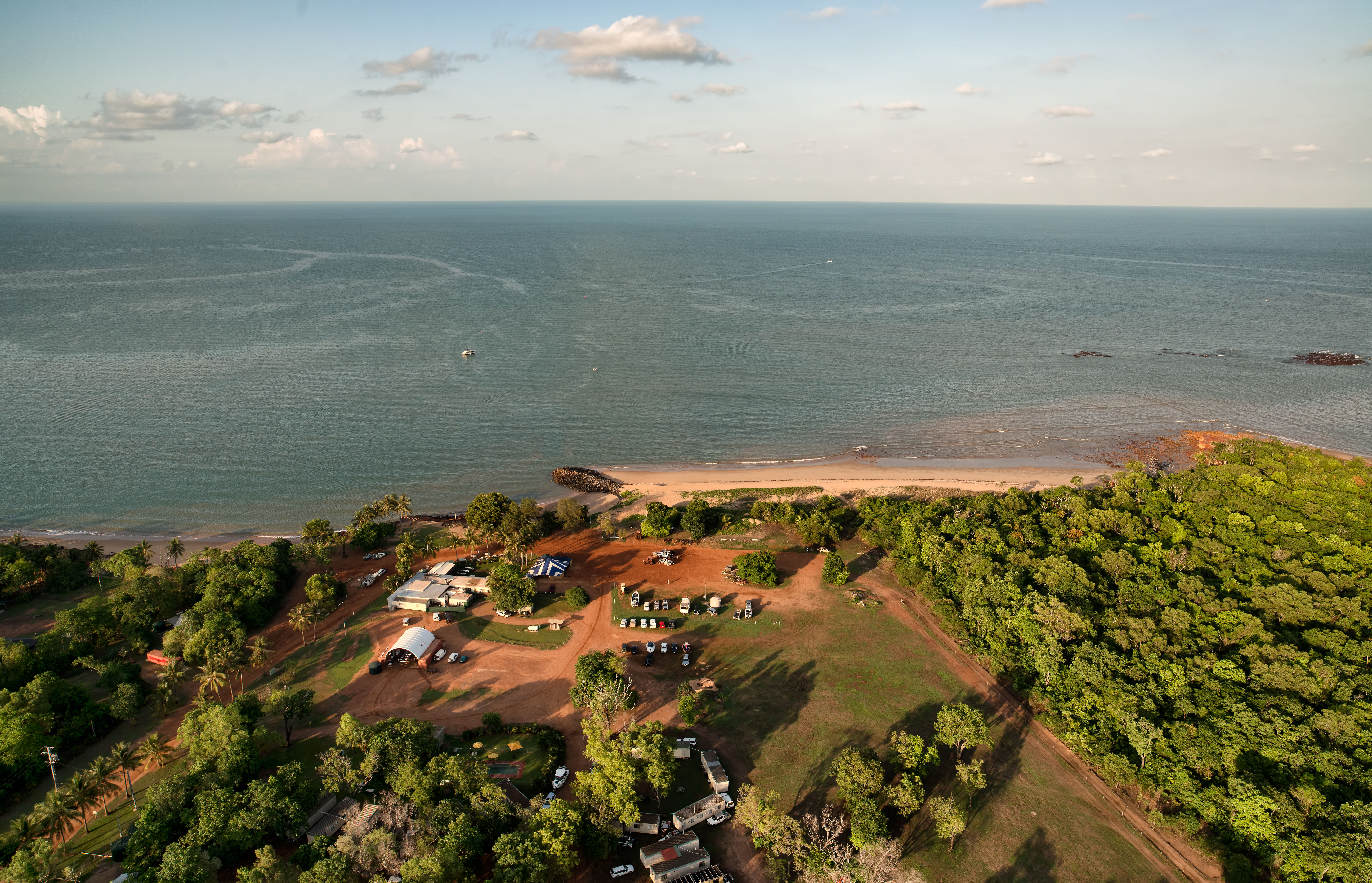 The Lodge of Dundee from the air looking west, at Dundee, Northern Territory, Australia.